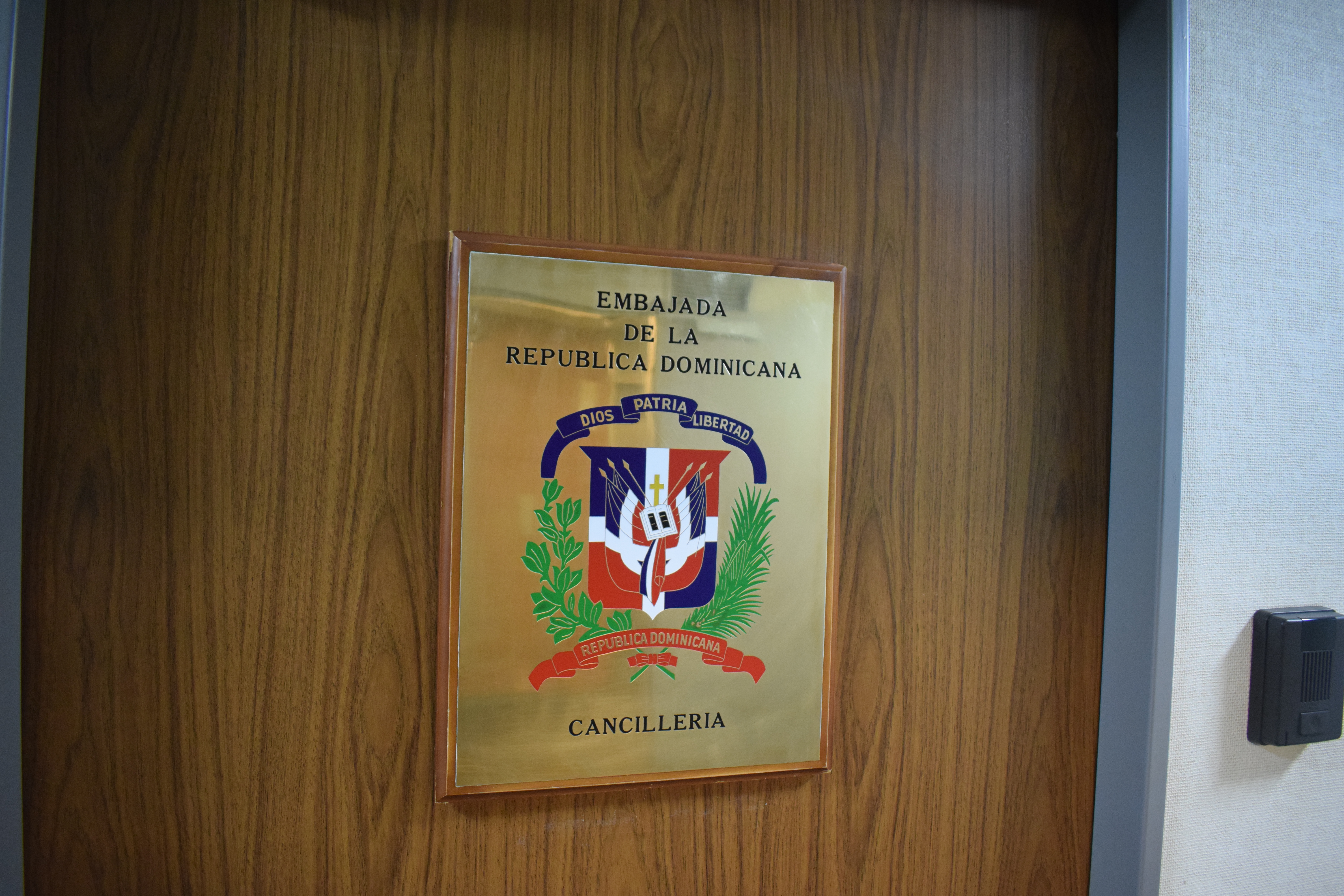 Plaque of the Embassy of the Dominican Republic in Tokyo, Japan